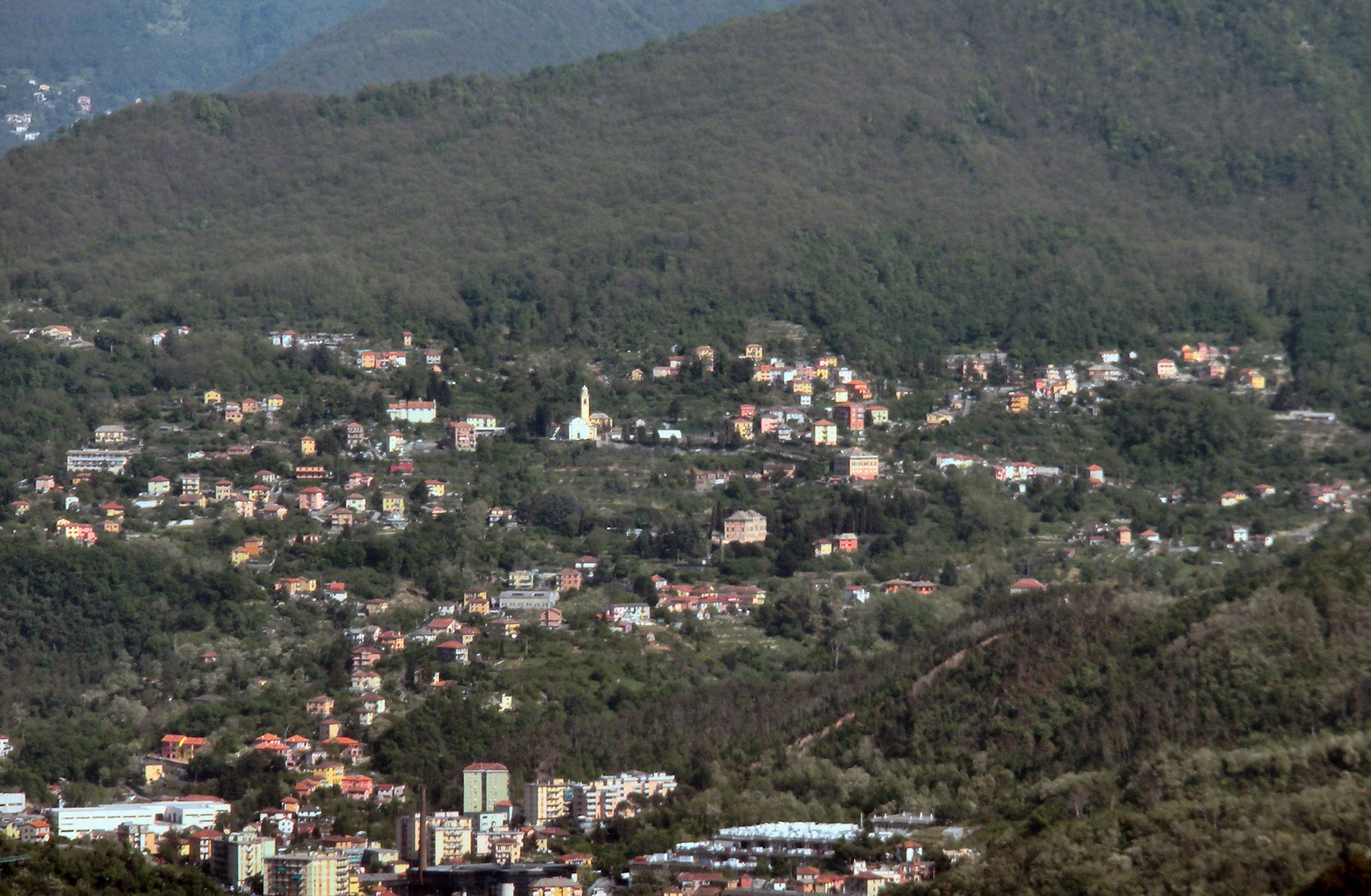 Genoa (Italy), view of the village of Fontanegli